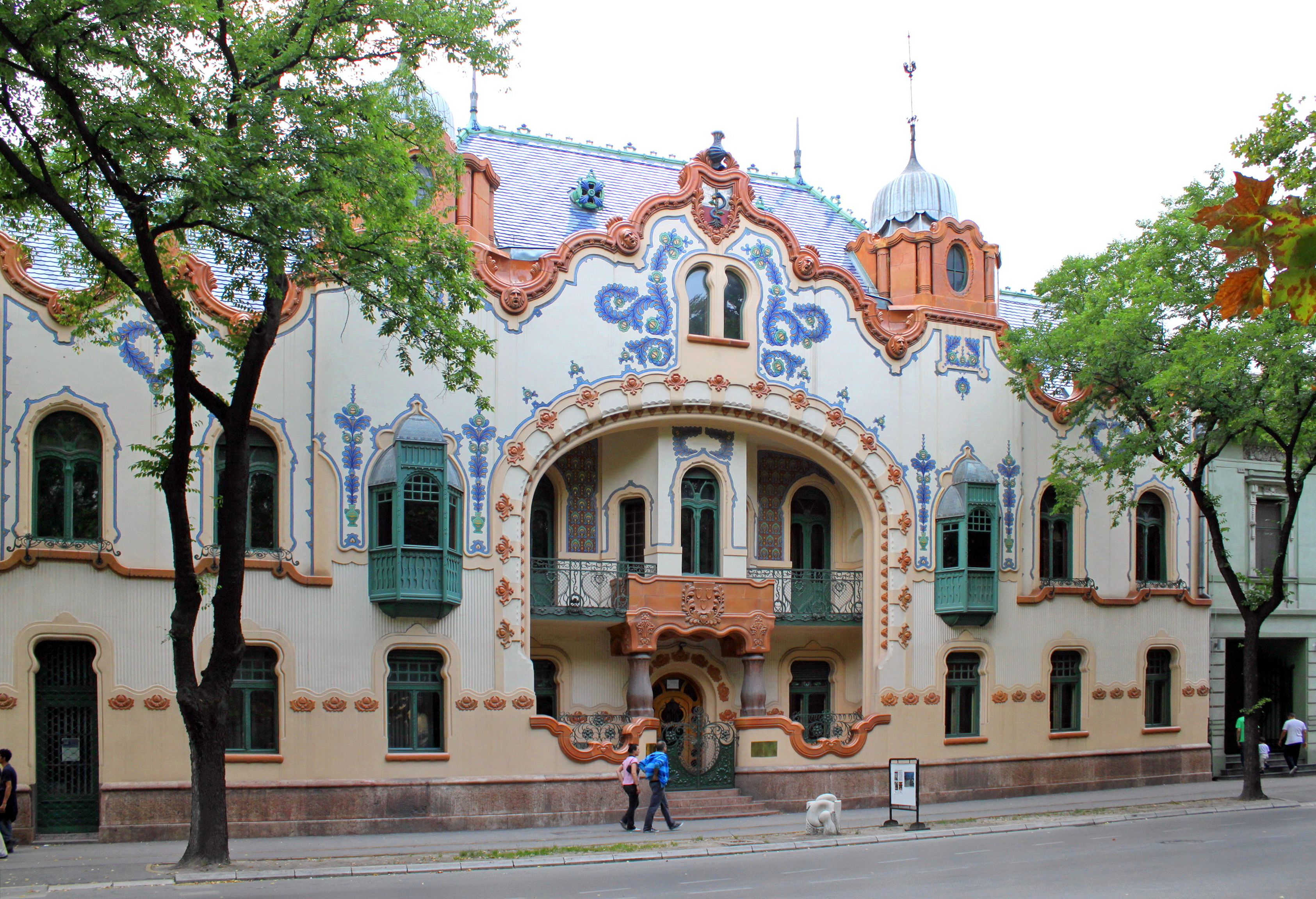 Raichle Palace. Subotica, Serbia. Built in 1904 by Ferenc J. Raichle (Raichl)